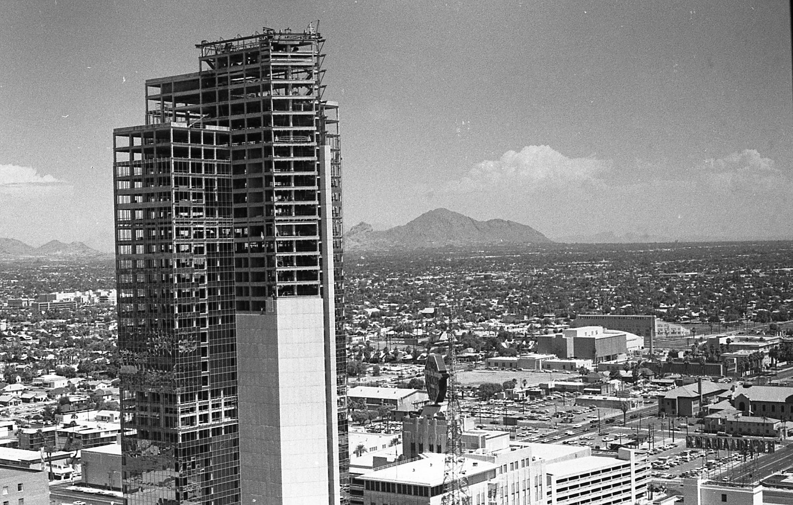 A photograph of the Valley National Bank building (now known as the Chase Tower (Phoenix)) while it was being constructed in 1972. The photograph was taken from the First Interstate building (now Wells Fargo Plaza, 100 W. Washington Street) and faces northeast toward Camelback mountain. The old Valley National Bank building can be seen in the foreground.